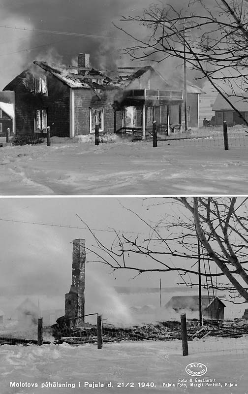 Burning building after the bombing of Pajala 1940